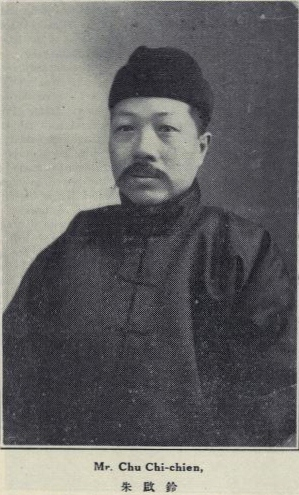 Zhu Qiqian (1872 - 1966)